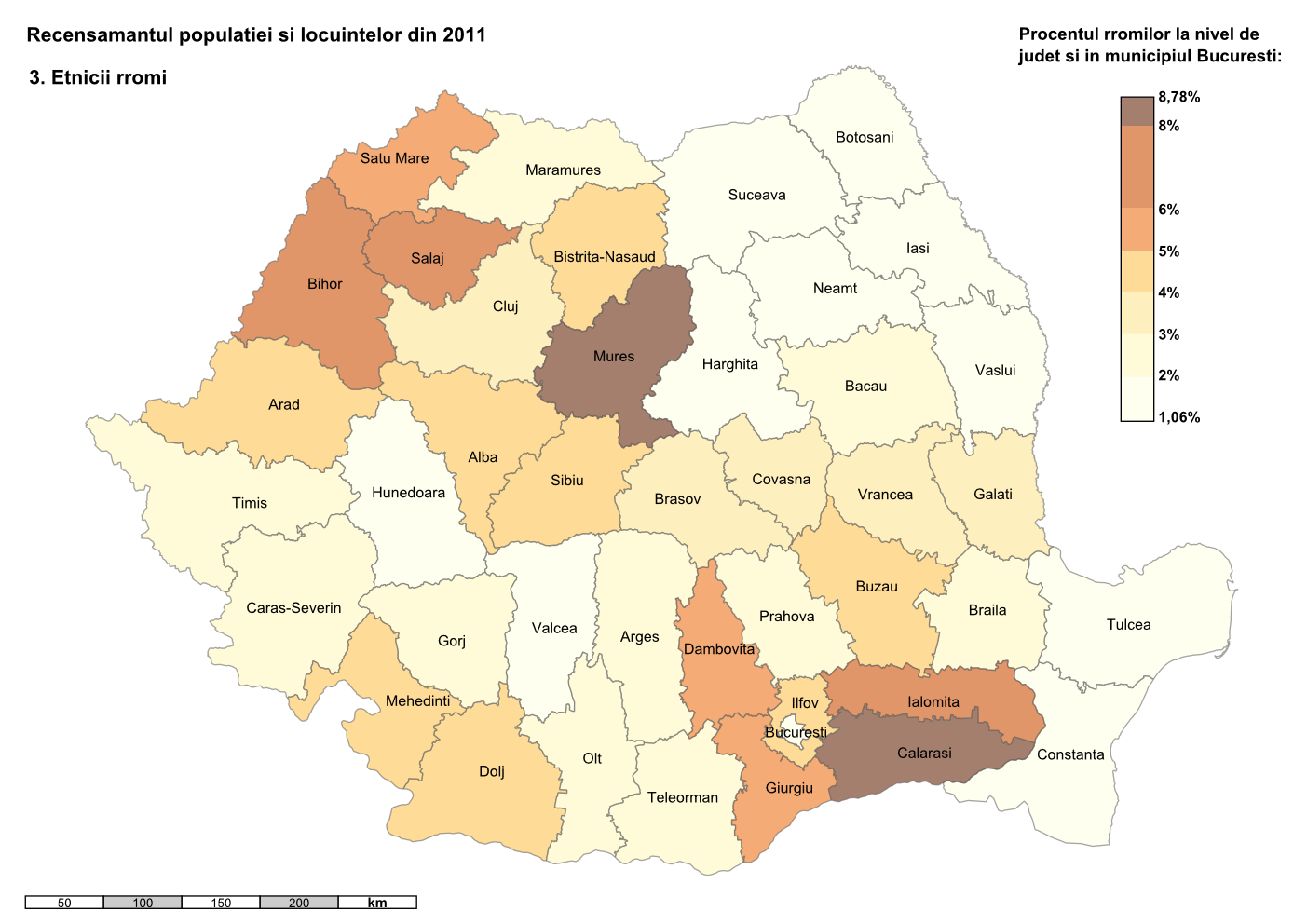 Distribution of ethnic Rroma in Romania according to the 2011 census. Software used: OpenJUMP GIS ( and Inkscape (